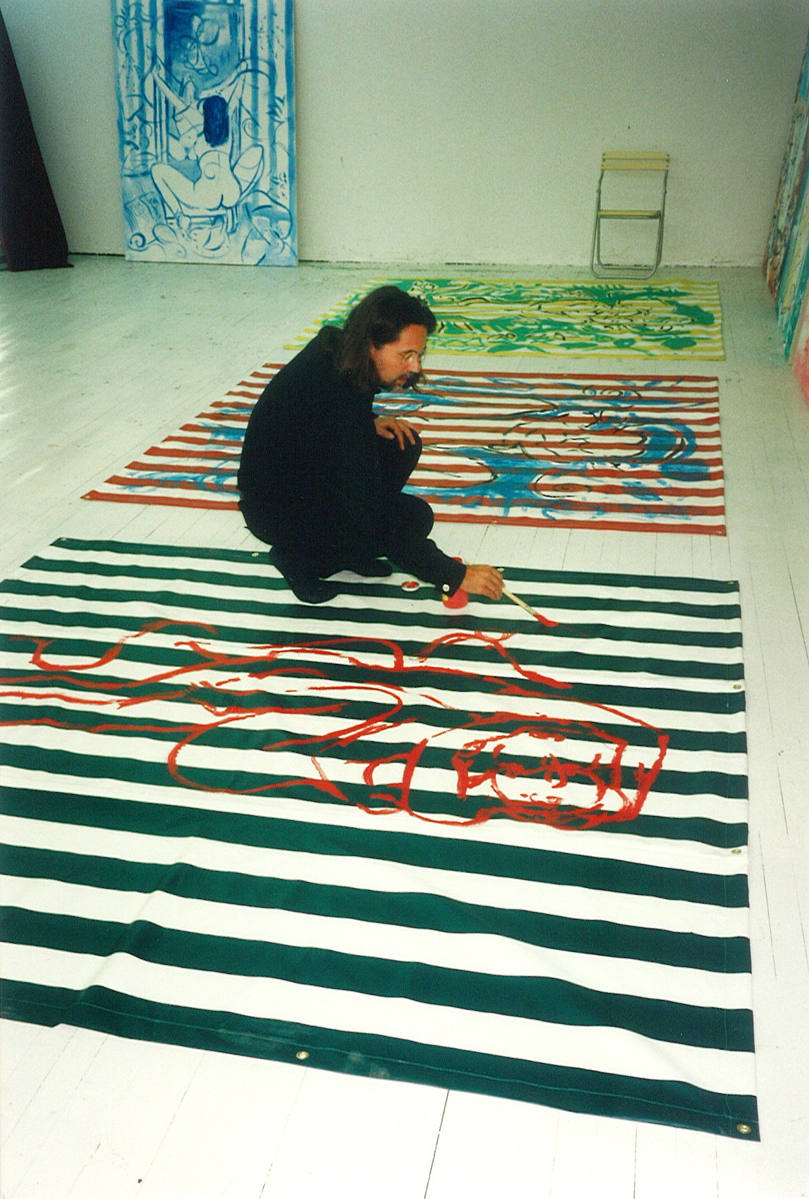 Stefan Szczesny in his studio in New York